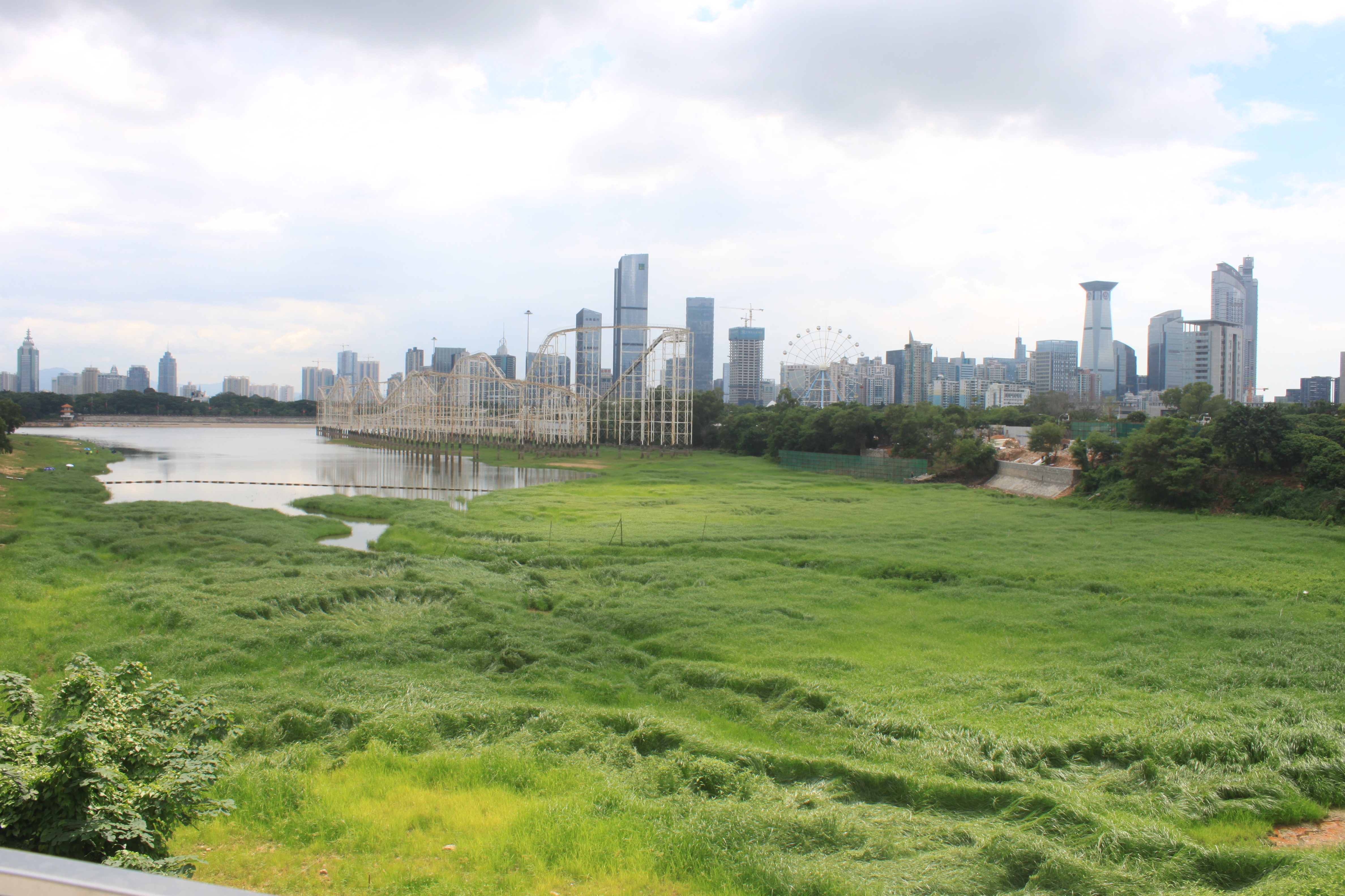 View of Xiangmi Lake during the dry season. In dry season, grass grows on the lake bed.